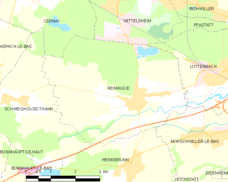 Map of French municipality